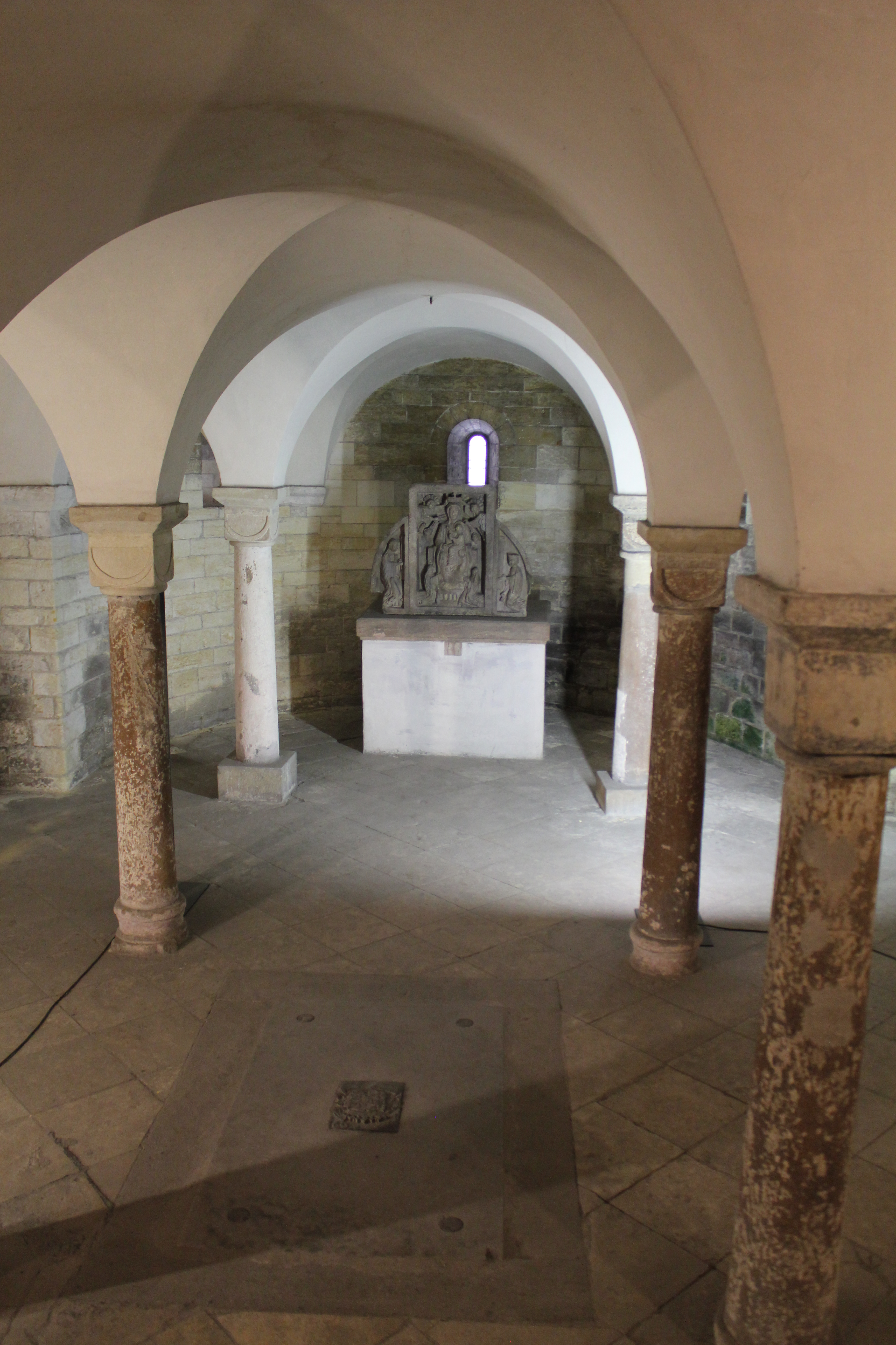 interior in Bazilika Sv. Jire - St. Georg - basilikaen